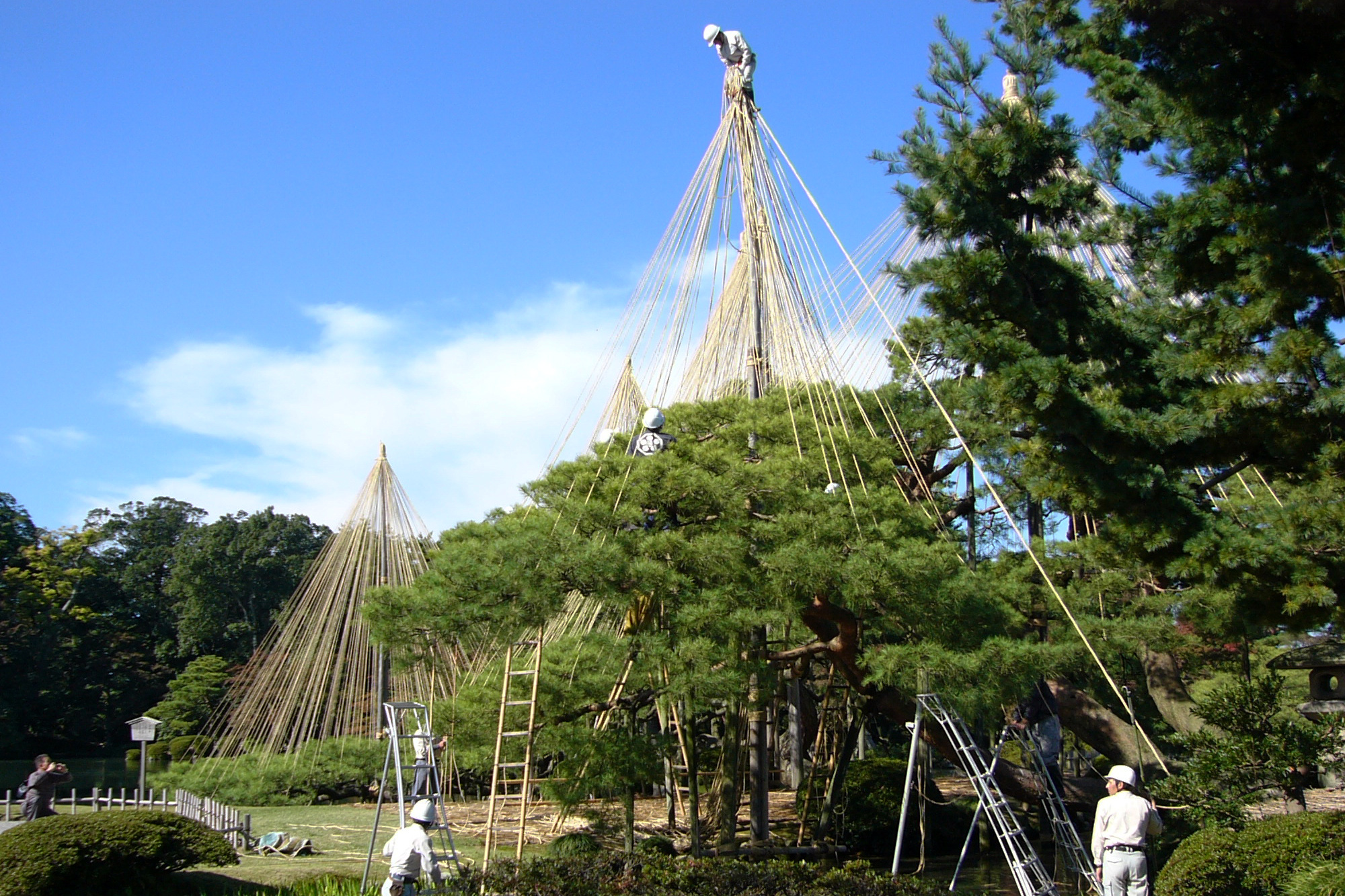 Kenrokuen garden in Kanazawa, Ishikawa, Japan